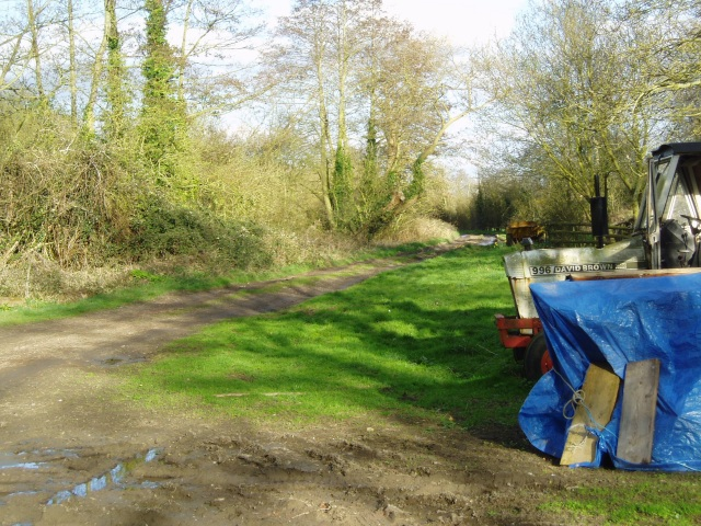 A Farm Road. This farm road is the original location for Wotton Station on the Brill Tramway, which ran from Quainton Road to Westcott.